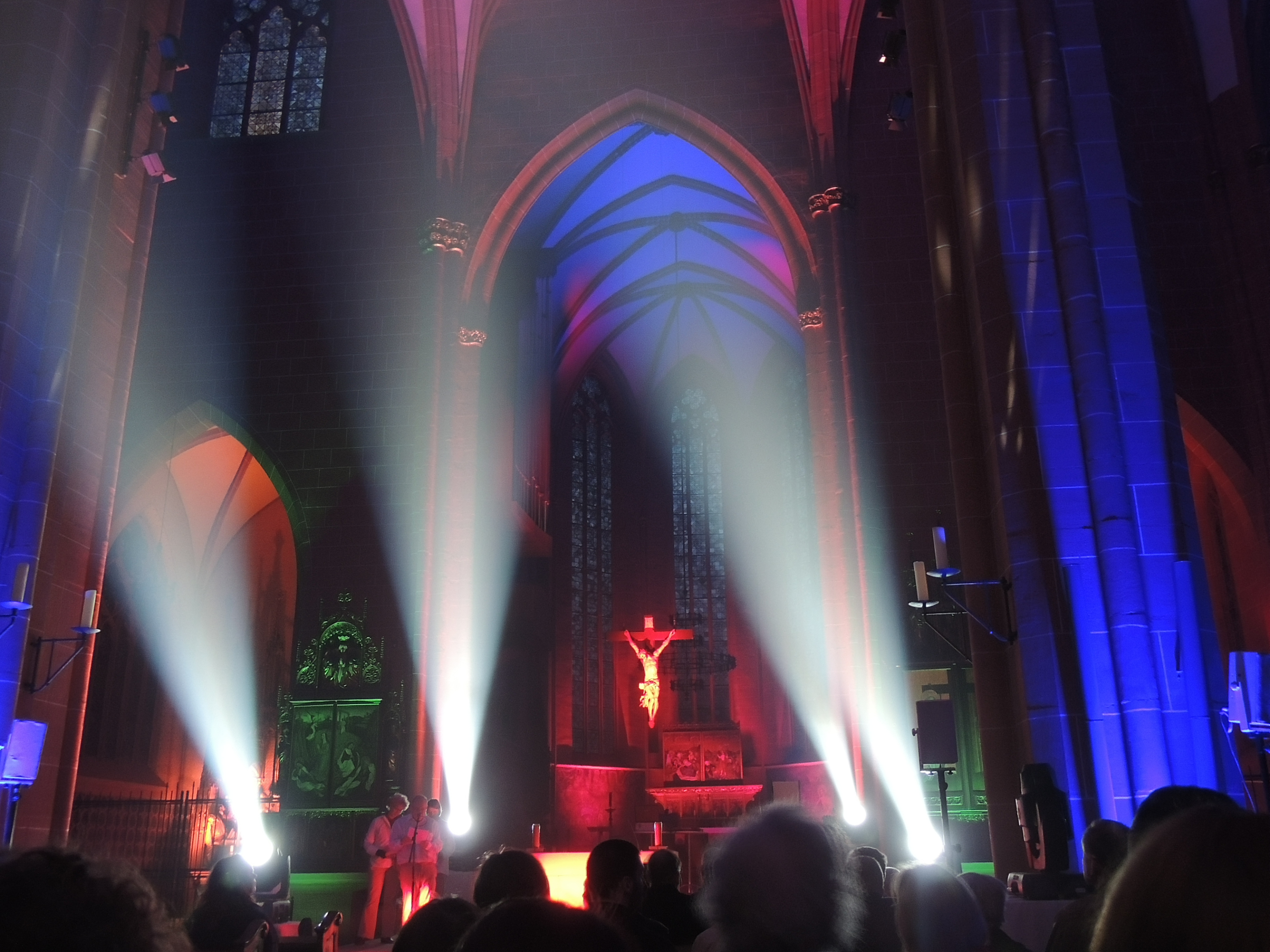 Composition of light, music and lyrics during the Luminale 2014 in the Frankfurt Cathedral, performed by the Youth Church JONA and the Centre for Christian Meditation and Spirituality of the Diocese of Limburg